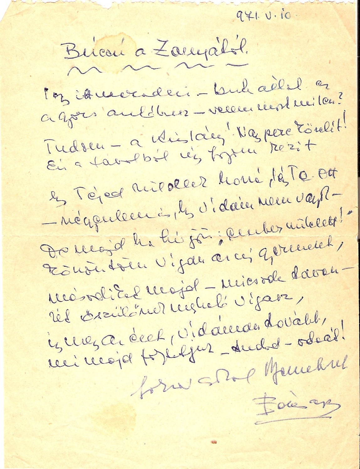 Búcsú a Zanyától - Farewell to Mum. A poem by the Rev. Fejes Ádám. Original handwriting. Composed before birth of second grandchild, first granddaughter.